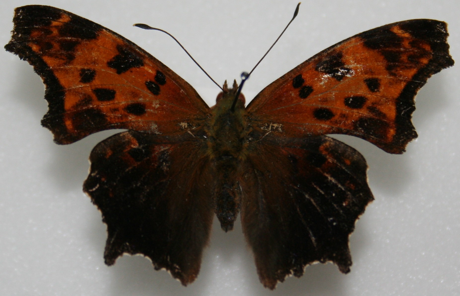 Eastern Comma, Polygonia comma